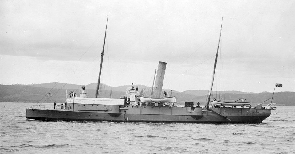 Photograph of South Australian colonial gunboat HMCS Protector. AWM Caption: PORT ADELAIDE, SA. c 1900. PORT SIDE VIEW OF THE GUNBOAT HMCS PROTECTOR OF THE SOUTH AUSTRALIAN NAVY. SHE SERVED IN CHINA DURING THE BOXER REBELLION.